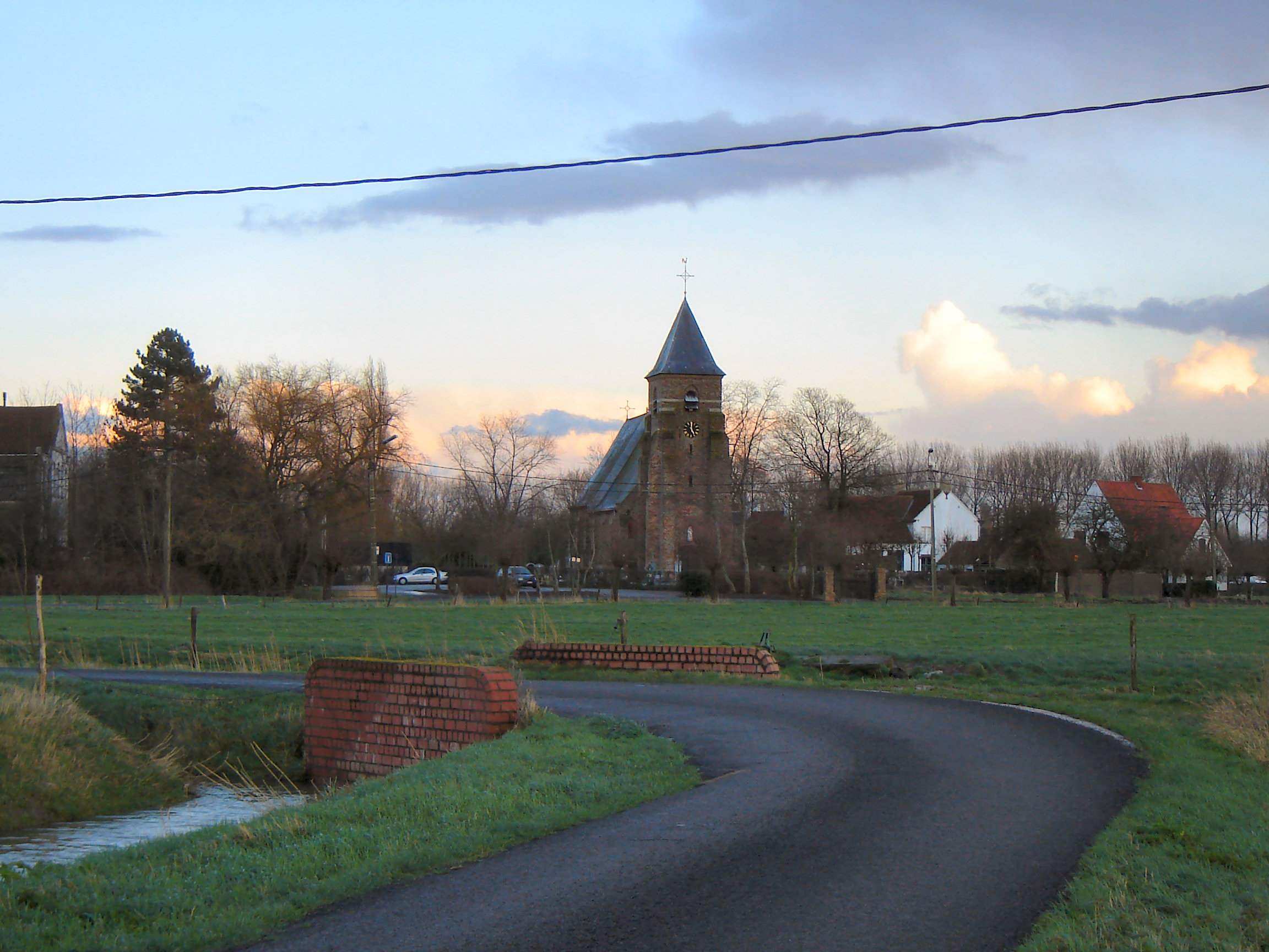 Church of Saint James the Great in Hoeke, Damme, West-Flanders, Belgium.